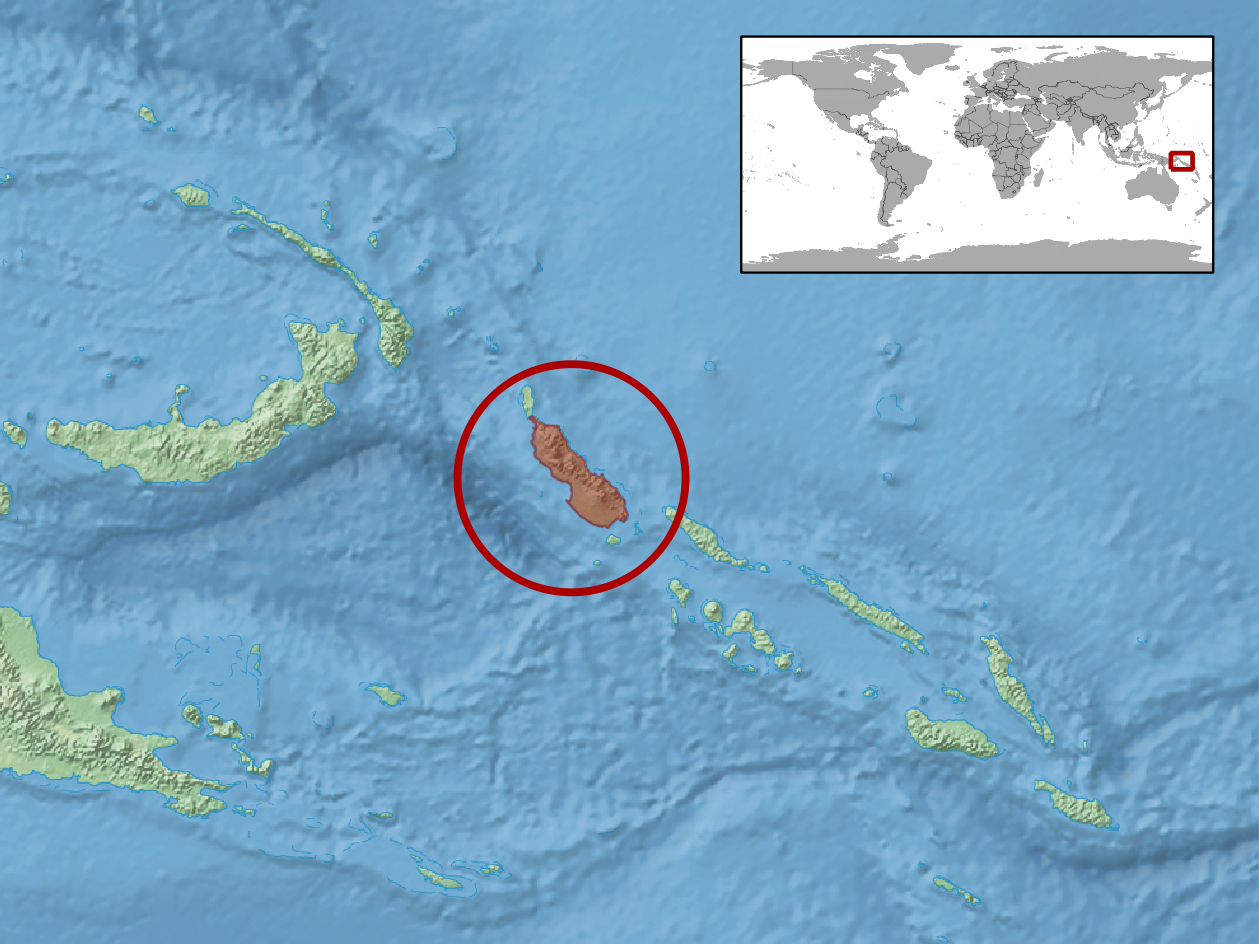 geographic distribution of Lepidodactylus mutahi (Native: Solomon Islands)